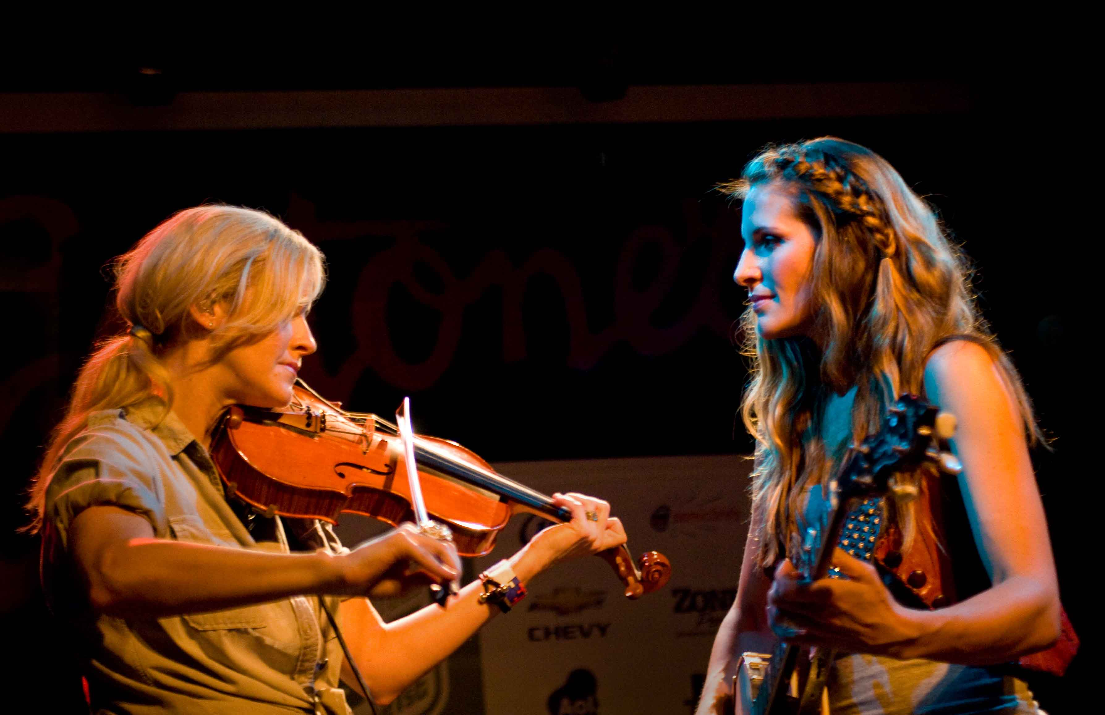 Martie Maguire and Emily Robinson of the Court Yard Hounds (Dixie Chicks fame) at Antone’s, SXSW, Austin, Texas 3-18-10